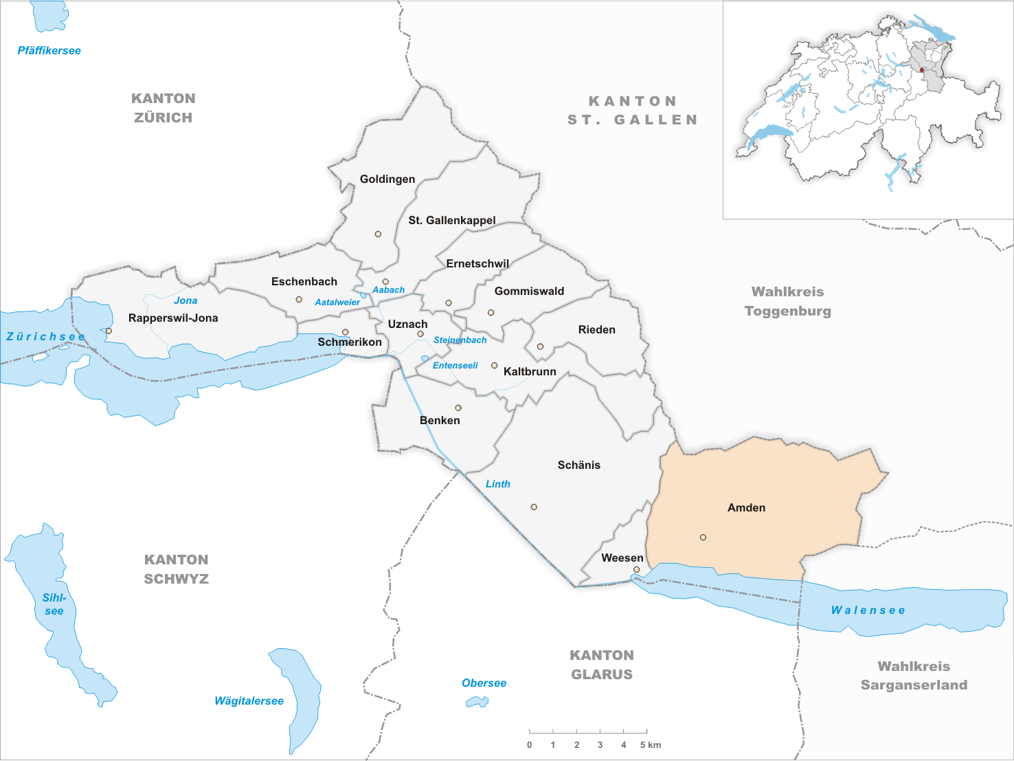 Municipality Amden